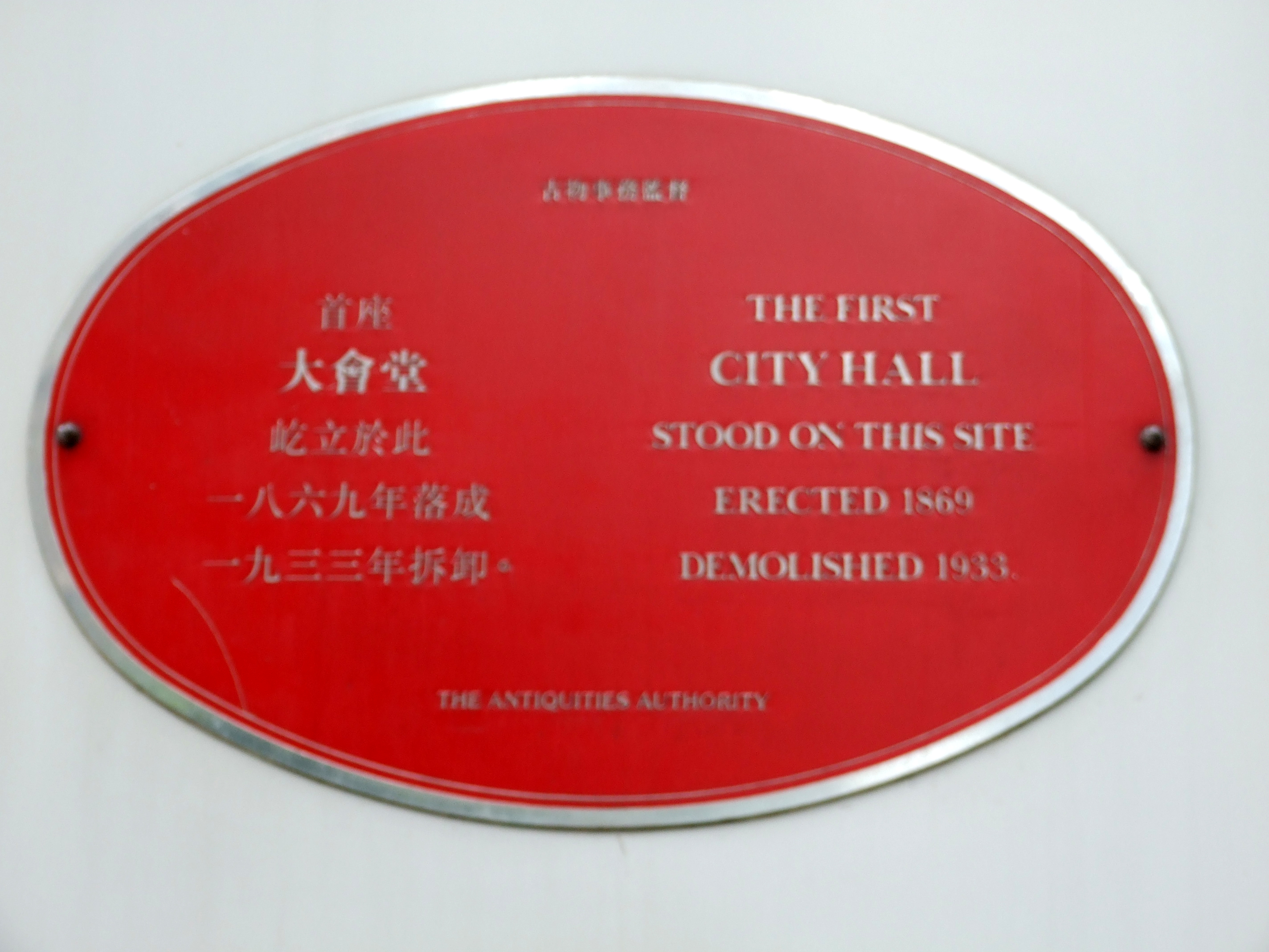 舊香港大會堂紀念牌匾 The first City Hall was constructed in 1869 and demolished in 1933. The site is now occupied by the Hong Kong and Shanghai Banking Corporation Limited Head Office.